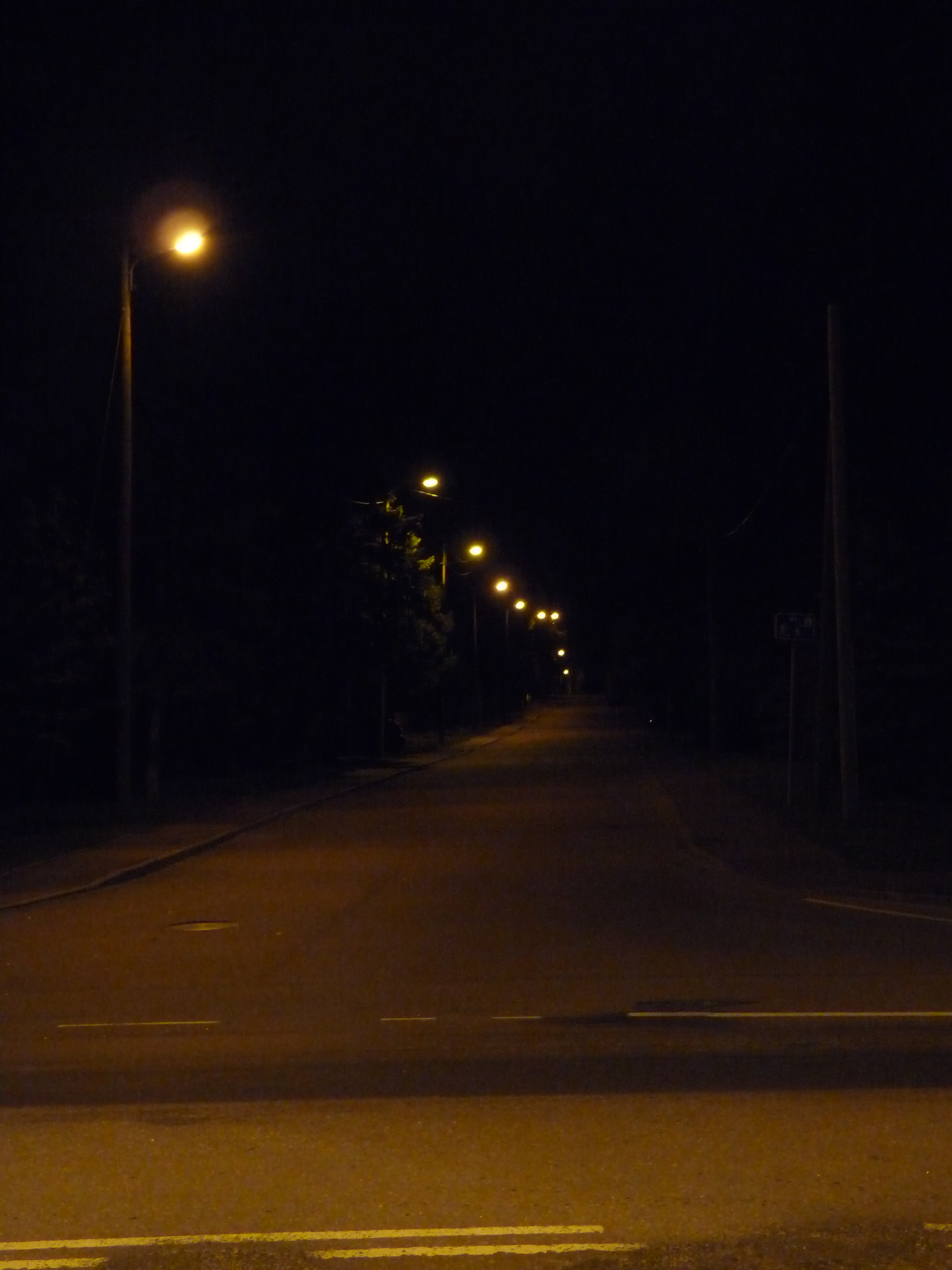 Väina street in Tallinn, Estonia.